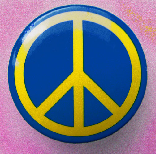 Peace Symbol Button- photo by P.B.Toman